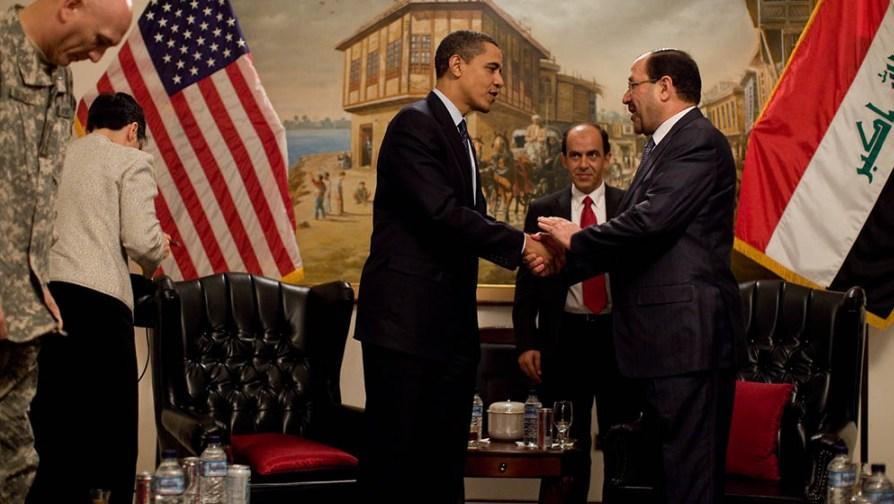 President Barack Obama shakes hands with Iraqi Prime Minister Nouri al-Maliki at the conclusion of their meeting Tuesday, April 7, 2009 in Baghdad. General Raymond Odierno, Commanding General, Multi-National Force—Iraq, is at far left.